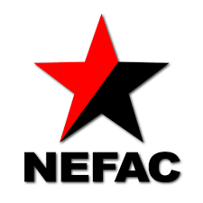 Green Mountain Anarchist Collective-NEFAC VT